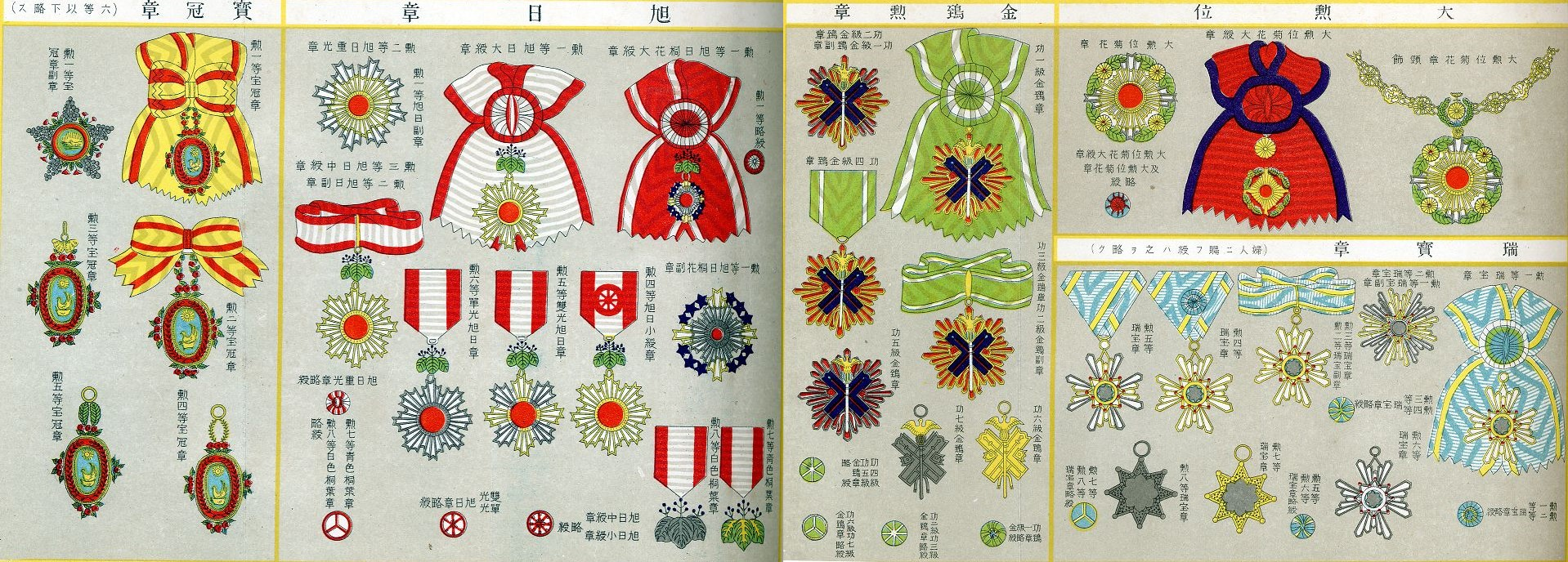 Displaying of Japanese honours